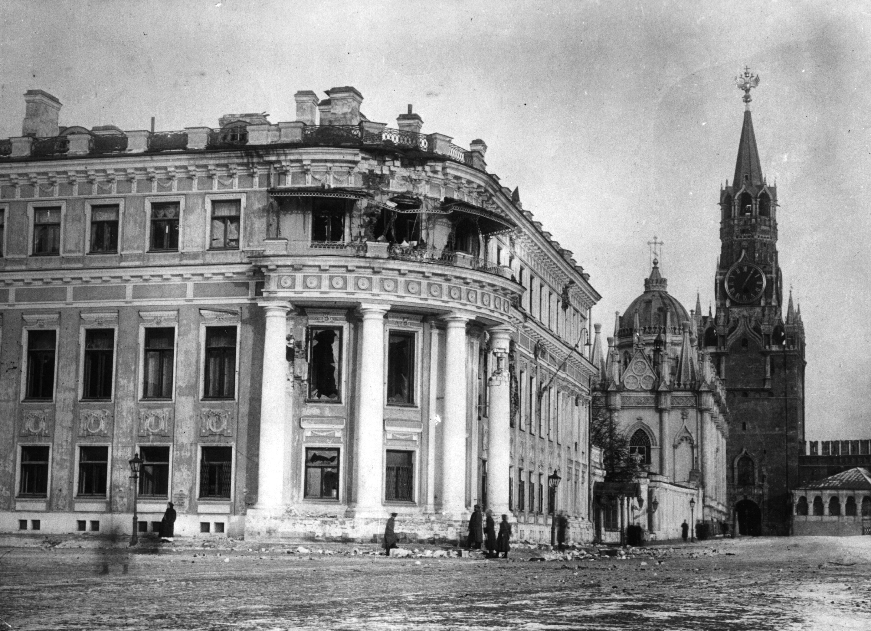 Small Nicholas Palace, damaged during the Russian Revolution, 1917.